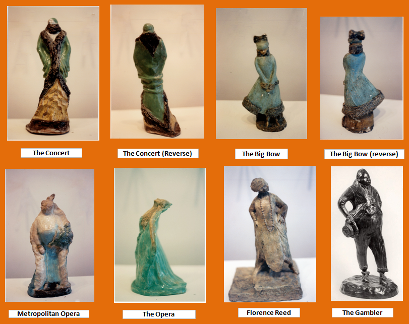 View of Statuettes by Ethel Myers